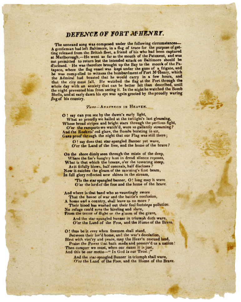 1814 broadside printing of the Defense of Fort McHenry, a poem that later became the national anthem of the United States